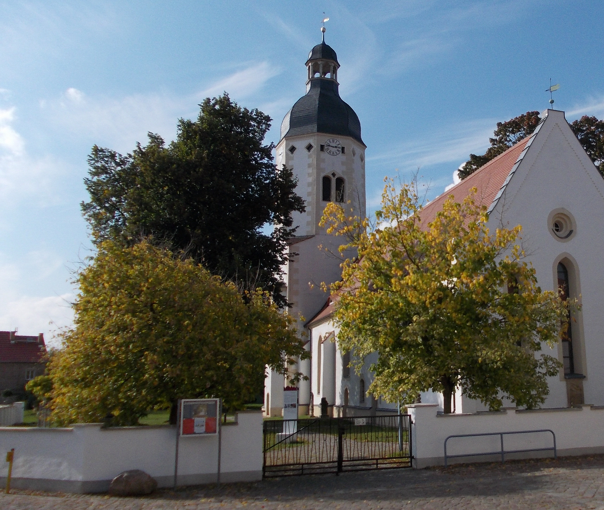 St. Nicholas Church in Uebigau (Uebigau-Wahrenbrück, Elbe-Elster district, Brandenburg)